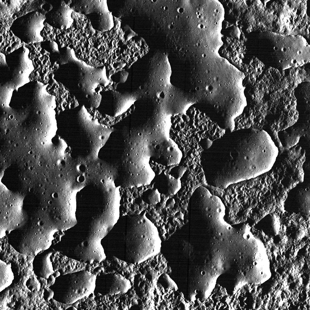 Part of the floor of the enigmatic crater Ina on the Moon, in Lacus Felicitatis. Centered at 18.66°N, 5.31°E. Photo by Lunar Reconnaissance Orbiter, made with Narrow Angle Camera 27 November 2009 from altitude 45 km. Sun elevation is 6.6°.Width of the photo is 1.0 km, north is up.